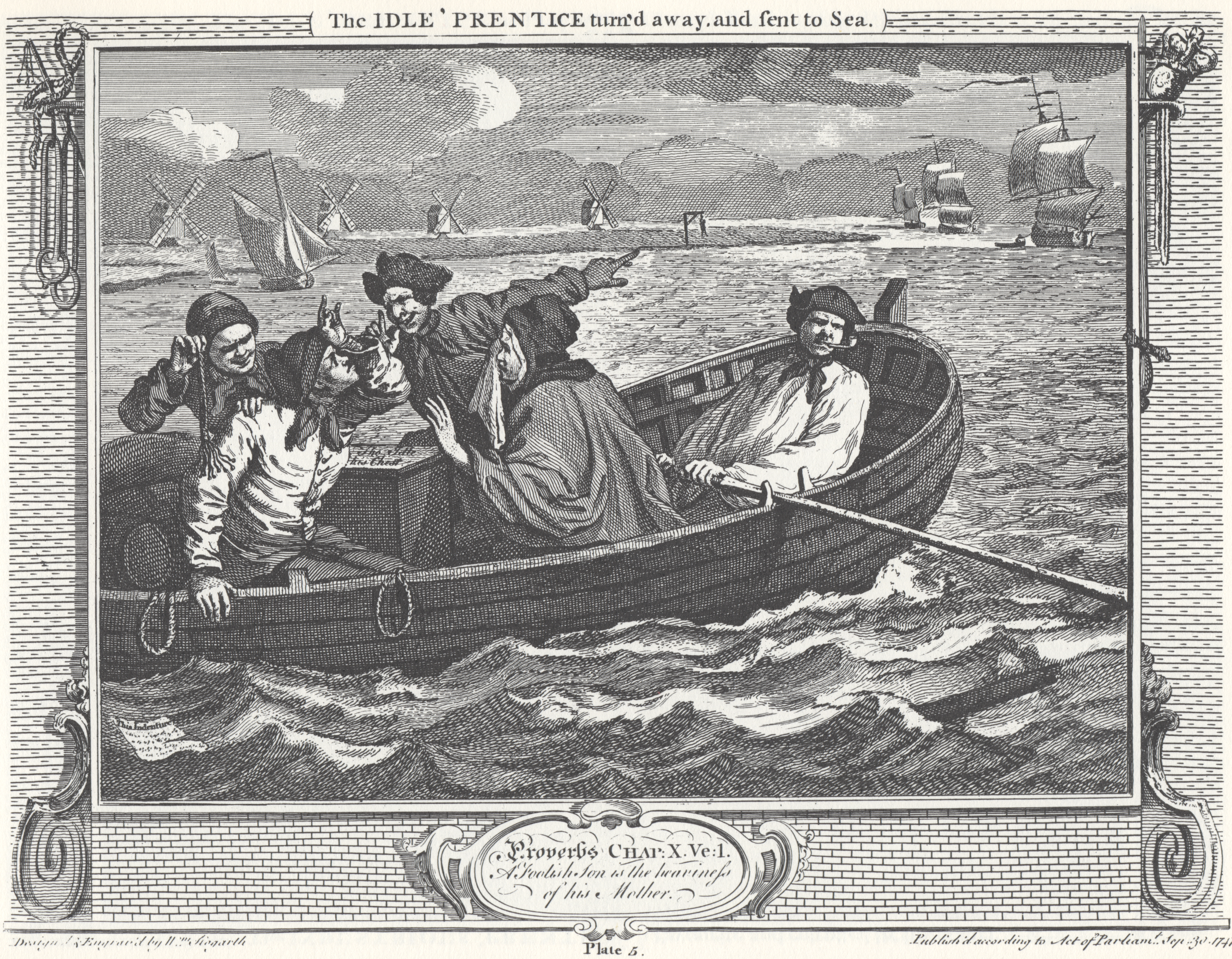 William Hogarth - Industry and Idleness, Plate 5; The Idle 'Prentice turn'd away, and sent to Sea